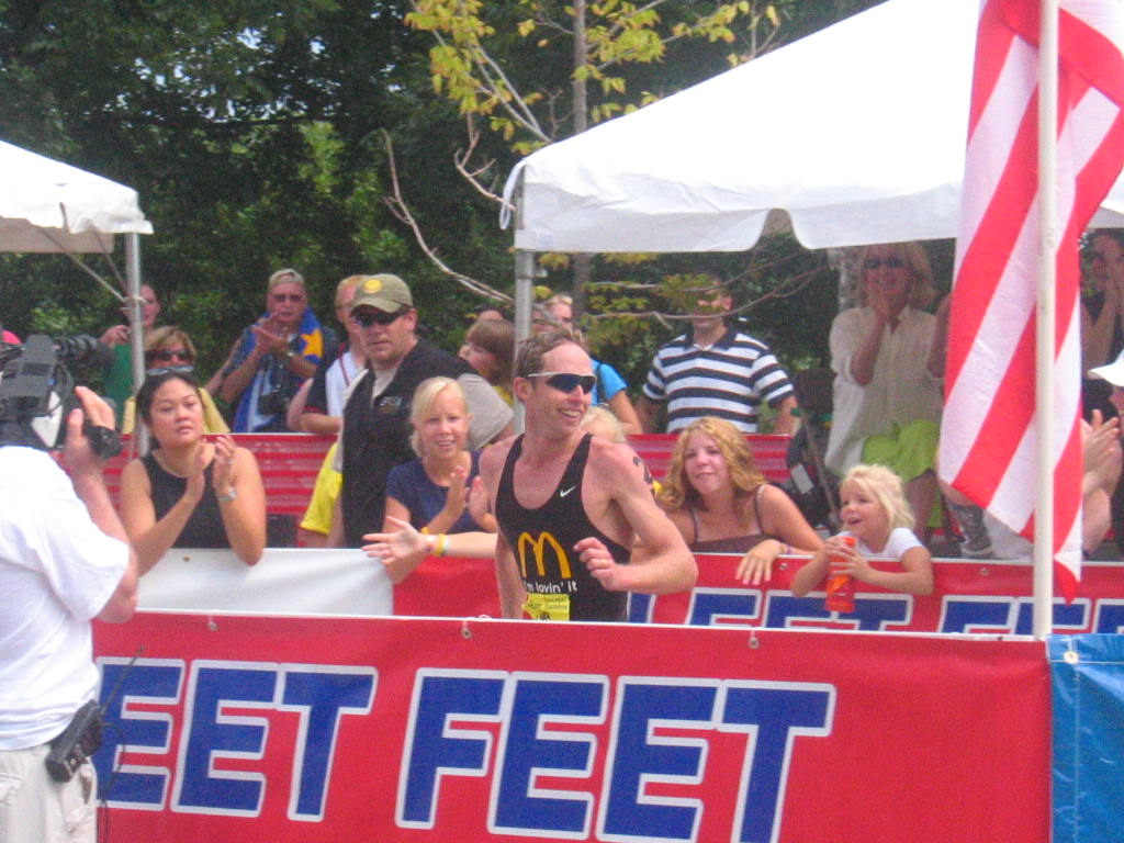 Hamish Carter wins 2005 Chicago Triathlon.